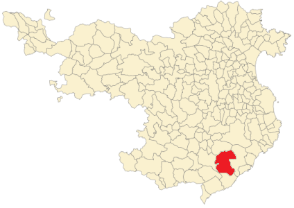 Llagostera